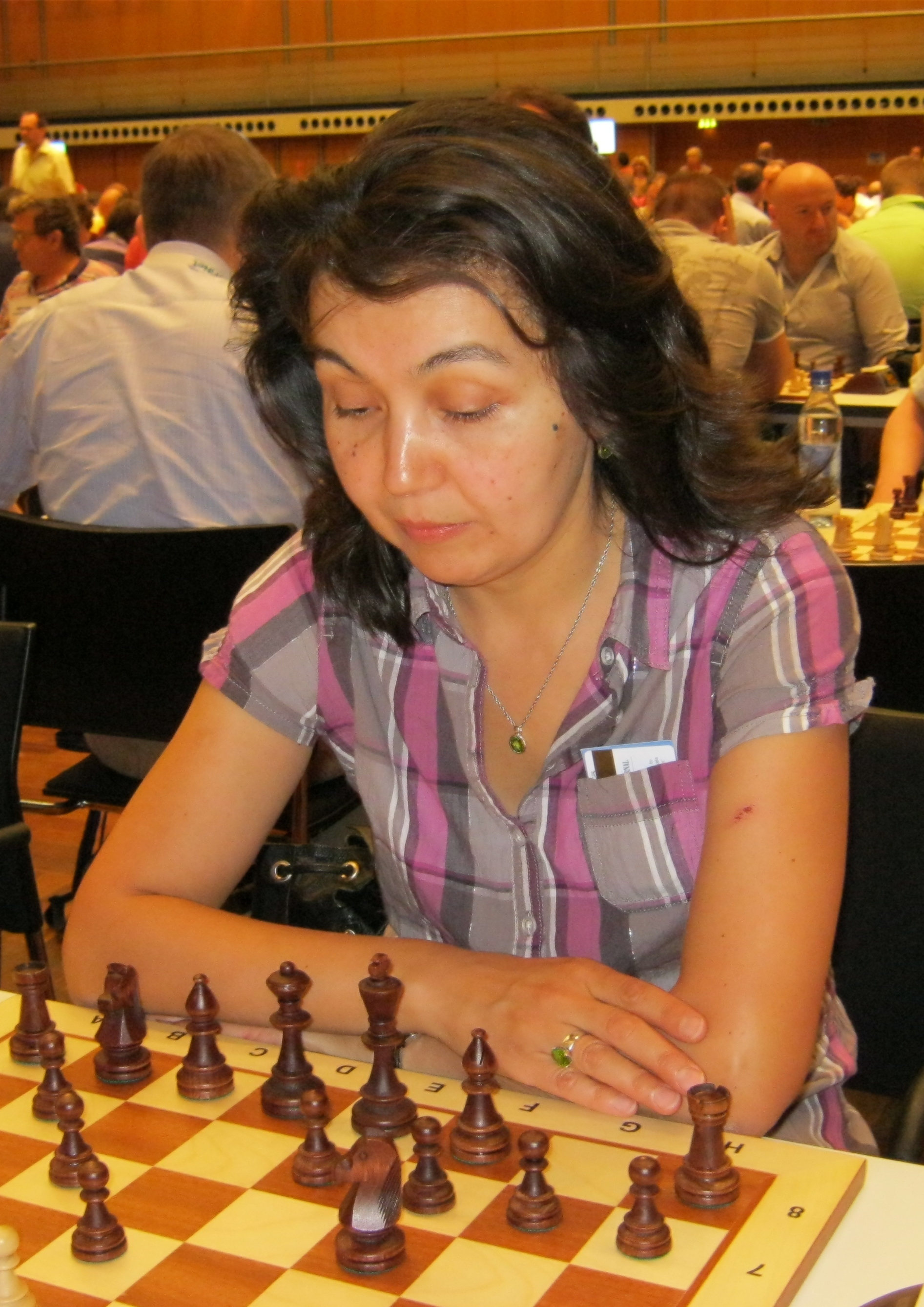 Elvira Berend-Sakhatova, chess player (woman grandmaster) from Luxembourg